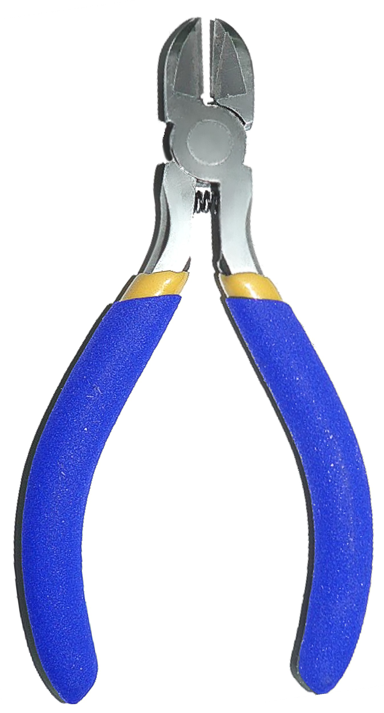 plier cutter narrow